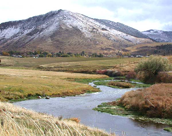 The Portneuf River in southeastern Idaho seen from U.S. Highway 30 west of Soda Springs (taken Oct. 18, 2004) © 2004 Matthew Trump